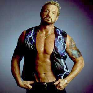 Owner of photo: Diamond Dallas Page Source: Received directly from owner Permissions to use this, and other, photos is on file with creative commons-wiki some rights reserved code